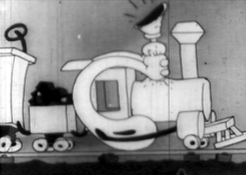 Scene from the 1930 cartoon Box Car Blues. This is the train Bosko and his friend the pig are riding.